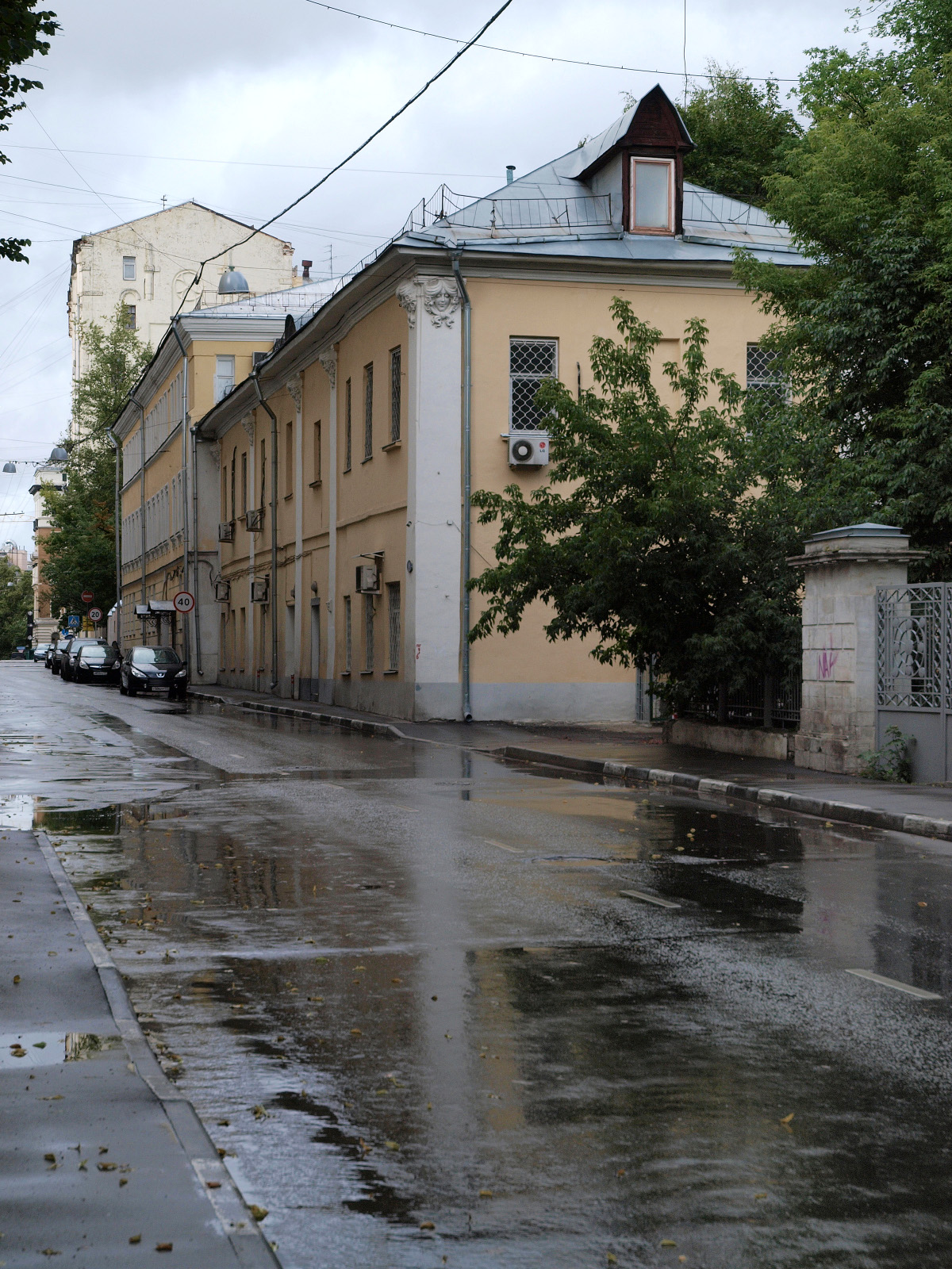 Milyutinsky Lane in Moscow.